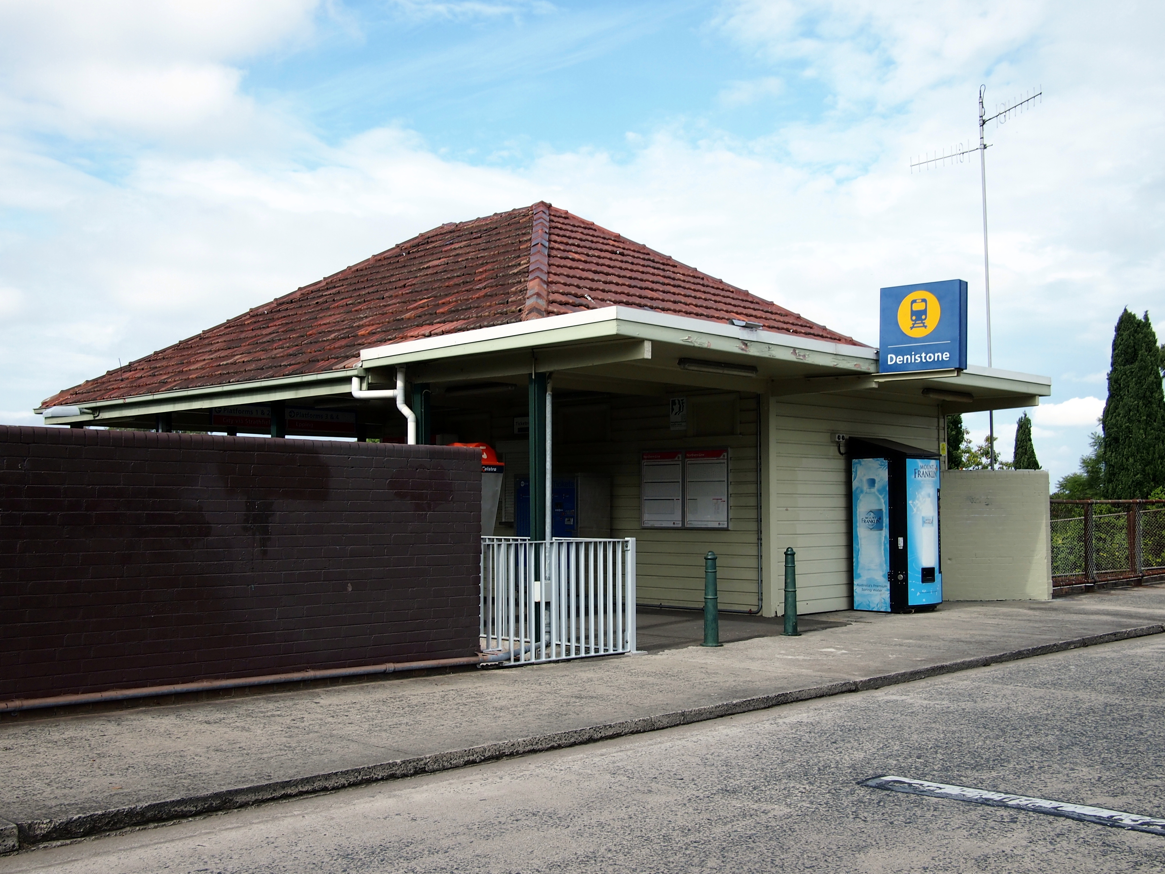 The entrance to Denistone Station